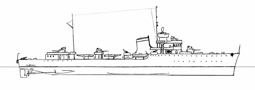 Destroyer Maestrale, Italy, 1942